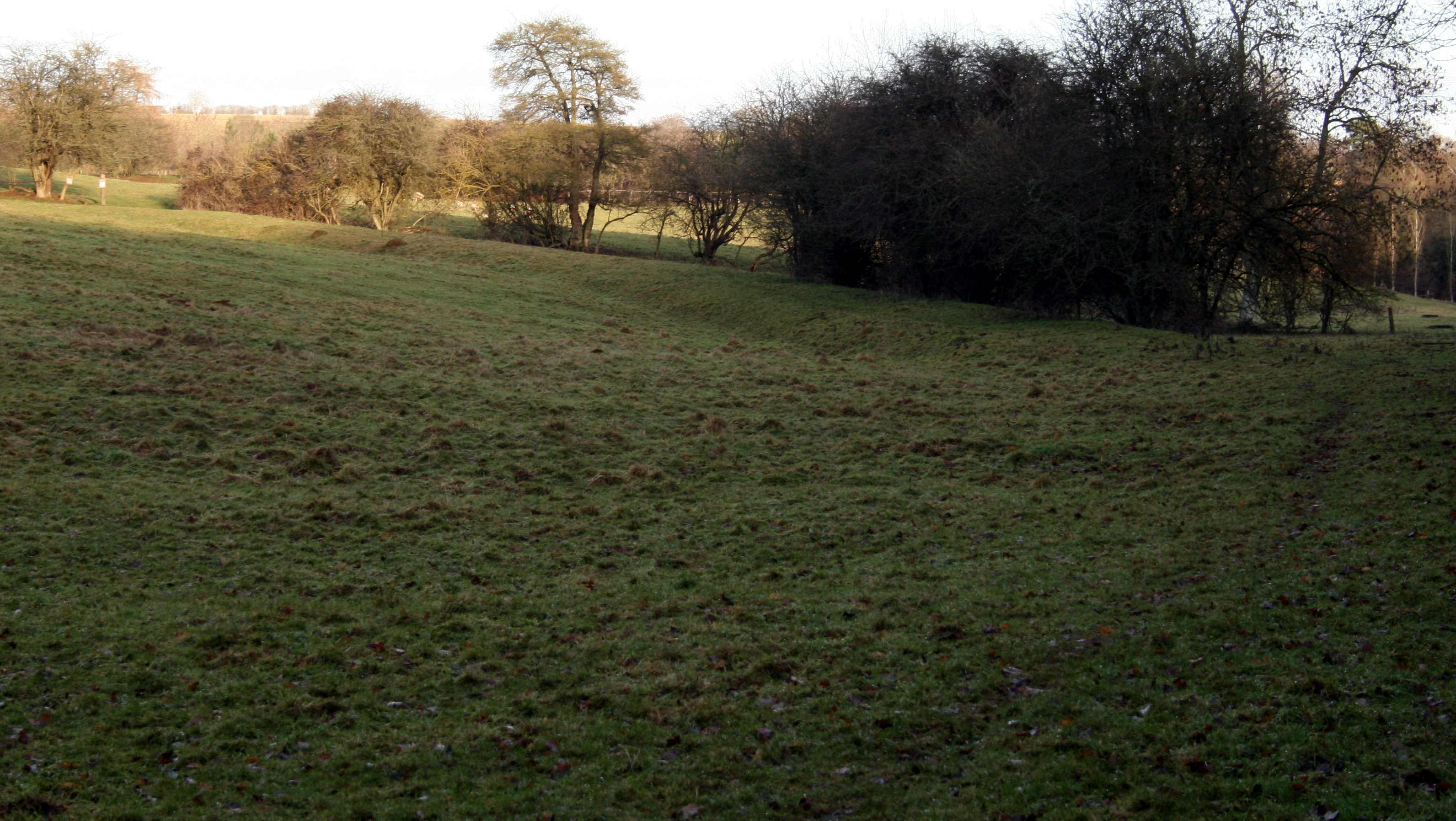 The formation of the Hook Norton Ironstone Partnership standard gauge line descending to pass under the Banbury and Cheltenham Railway viaduct